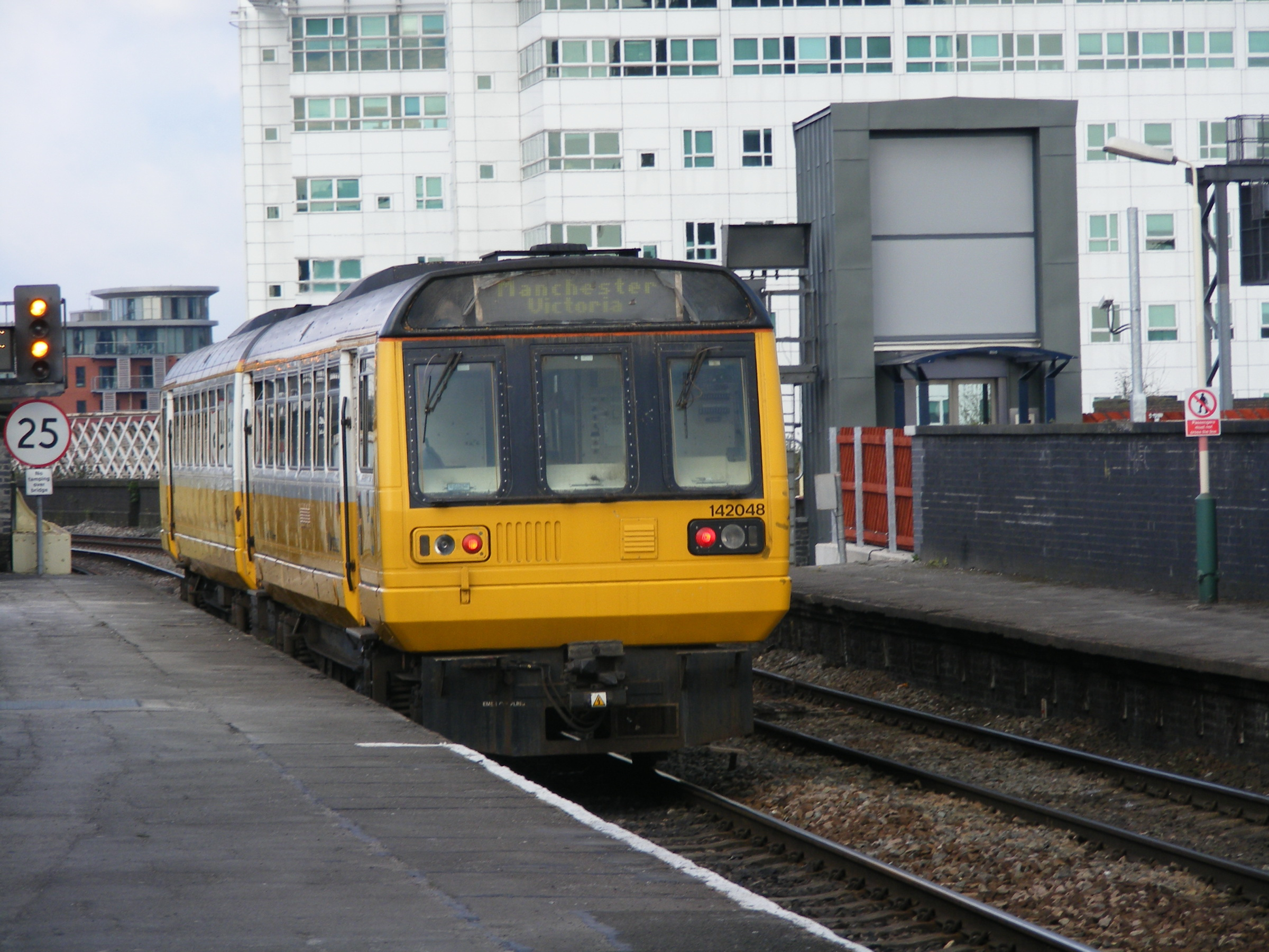 Northern Rail 142 048 departing from Salford Central railway station (towards Manchester Victoria), in Salford, Greater Manchester, England.